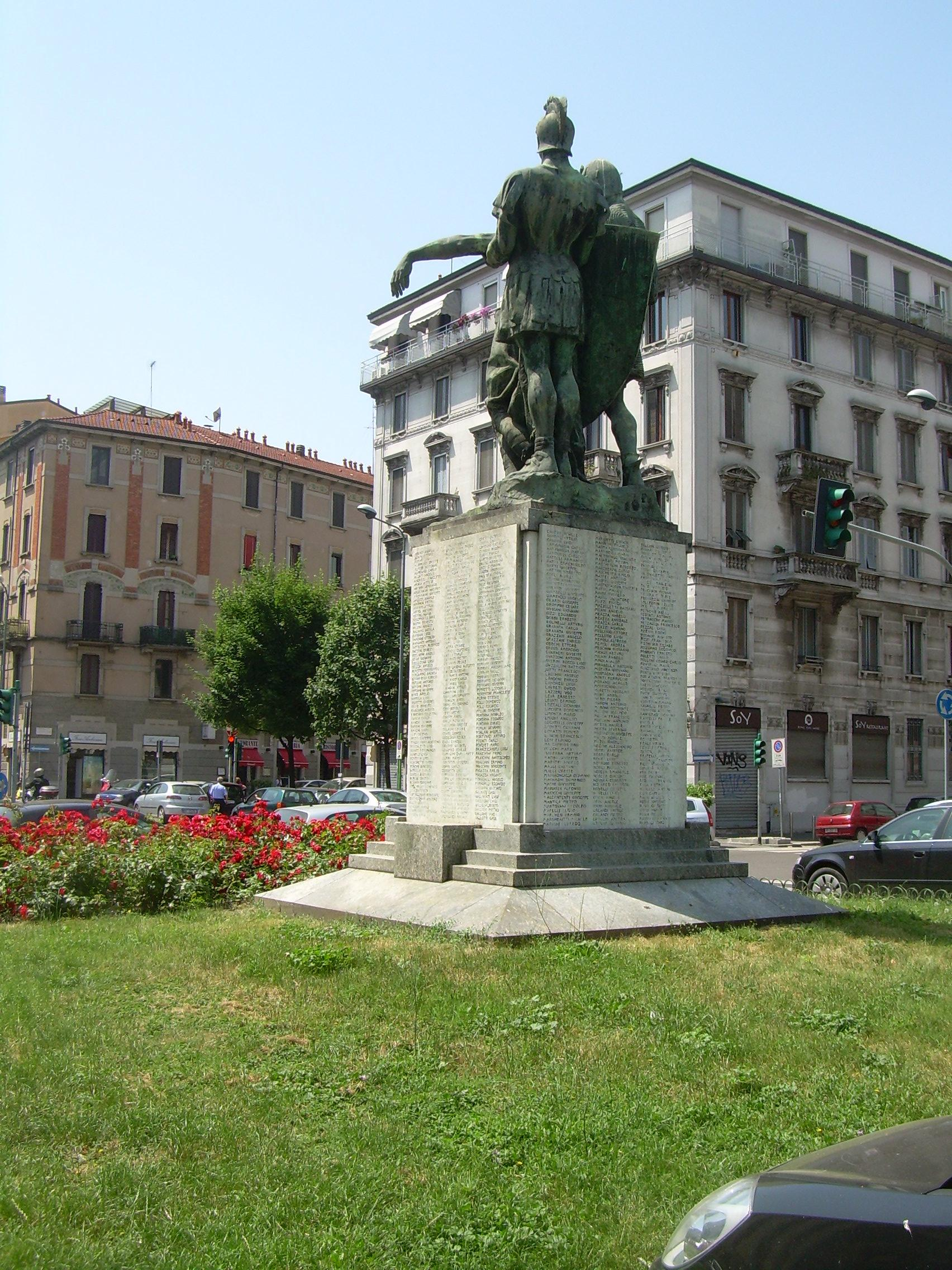 Monument to Austria's bombing victims of 1916 and to the fallen in the World War I from the Porta Romana district: via Tiraboschi, Milan